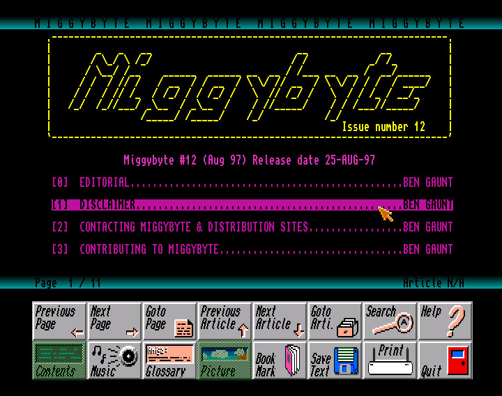 Screen shot of Miggybyte Freeware magazine